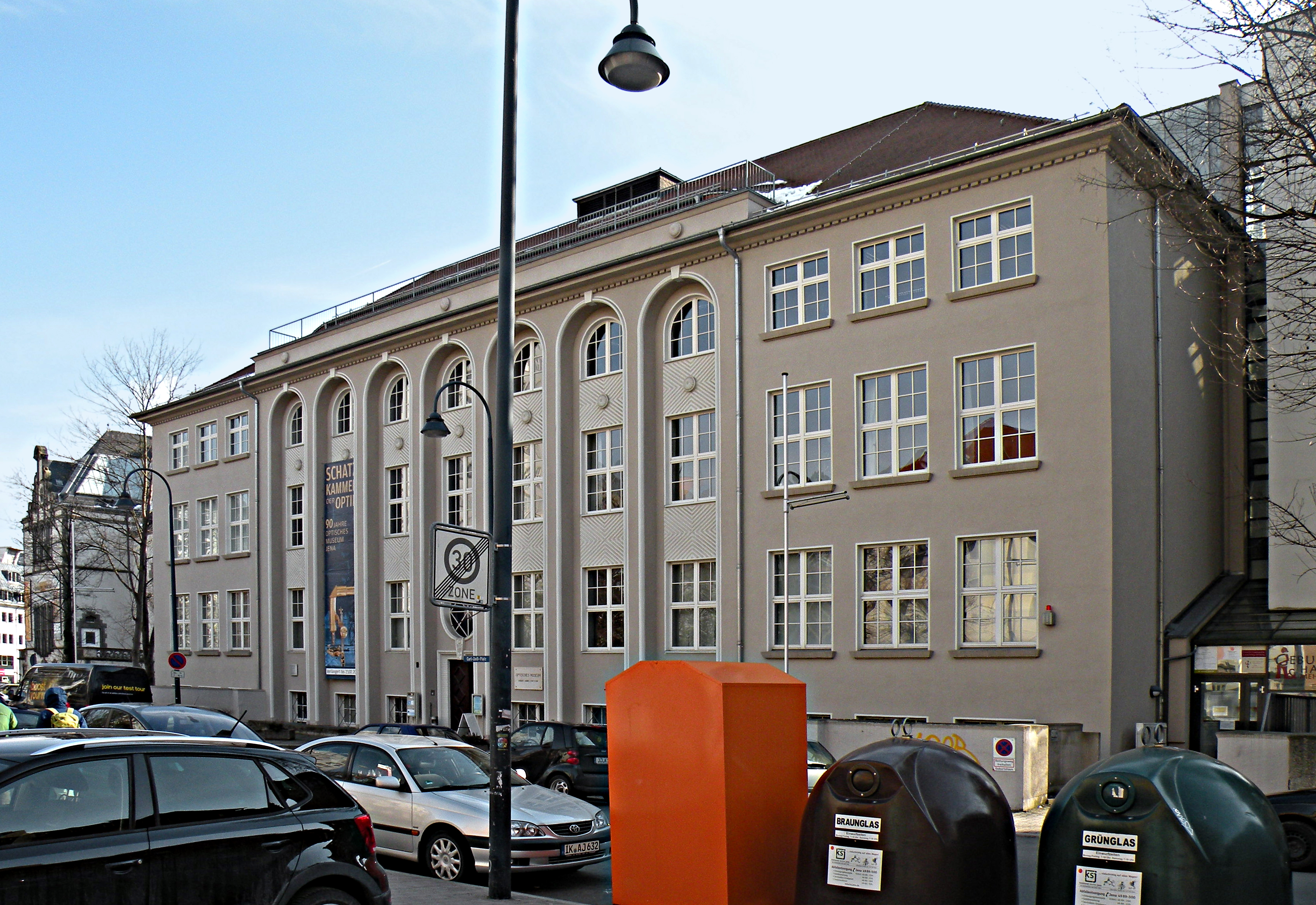 Optical Museum in Jena, Germany